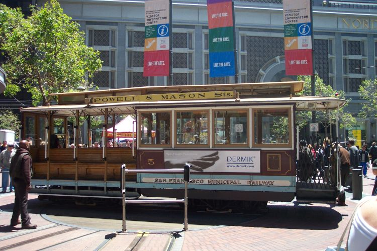 San Francisco cable car at Powell & Market terminal.